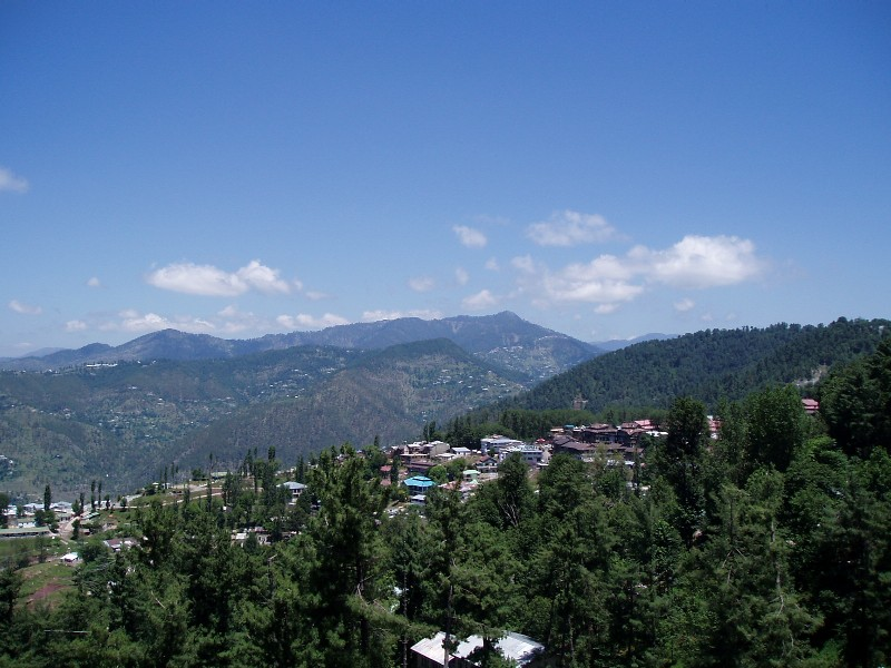 View of Mountain Valley from the Top, 6 October 2007